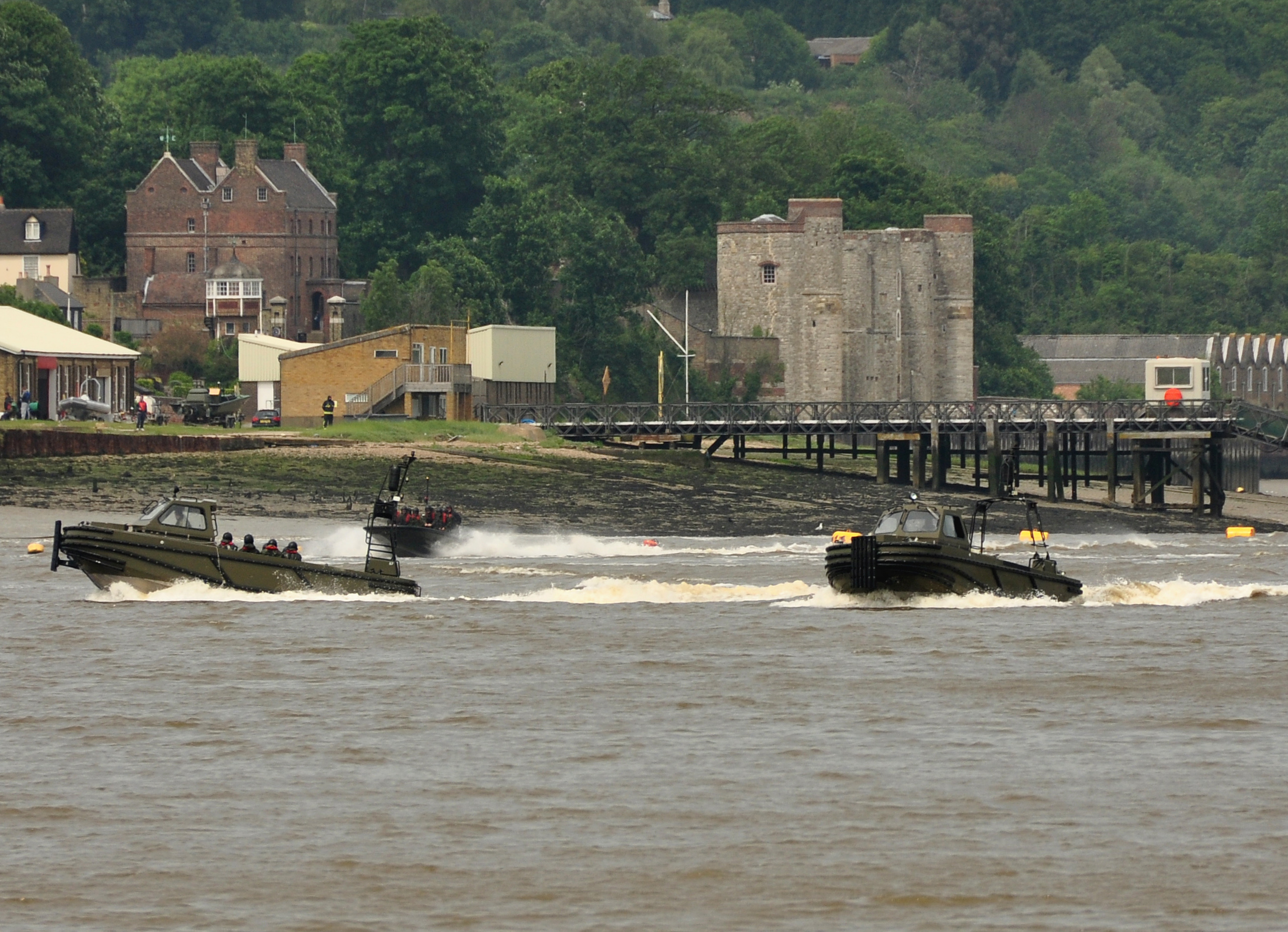 Army assault boats practicing on the River Medway near Chatham Dockyard, with Upnor Castle in the distance.